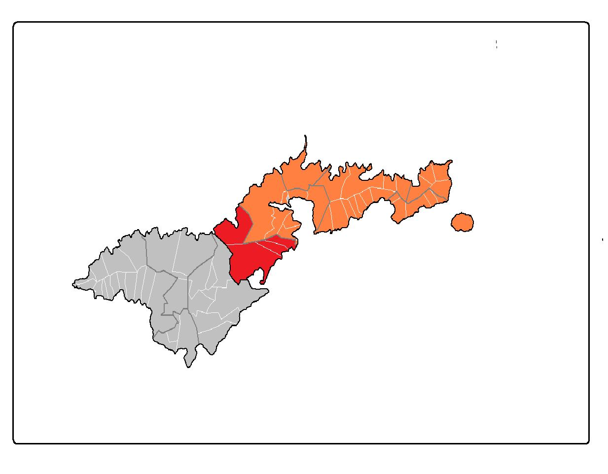 Locator map of American Samoa: Ituau county